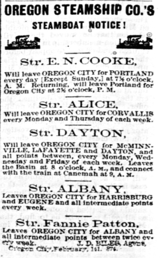 Advertisement for inland river steamers owned or controlled by the Oregon Steamship Company, published July 29, 1874.